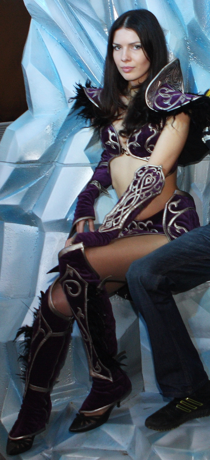 Cropped from the original.